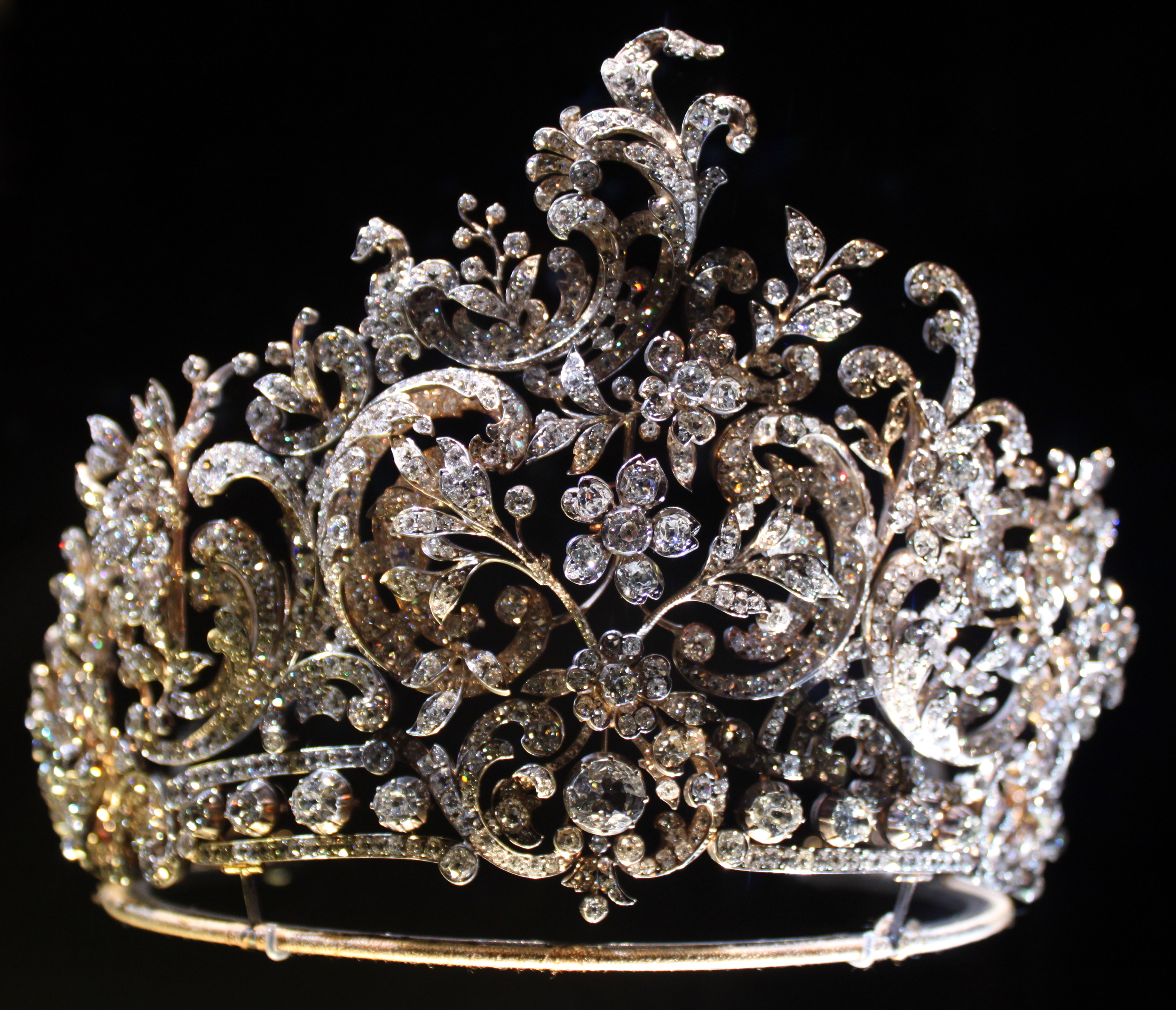 Brilliant diadem of Queen Charlotte, by Eduard Foehr II (1835-1904), 1896, shown at the Landesmuseum Württemberg, Stuttgart, Germany